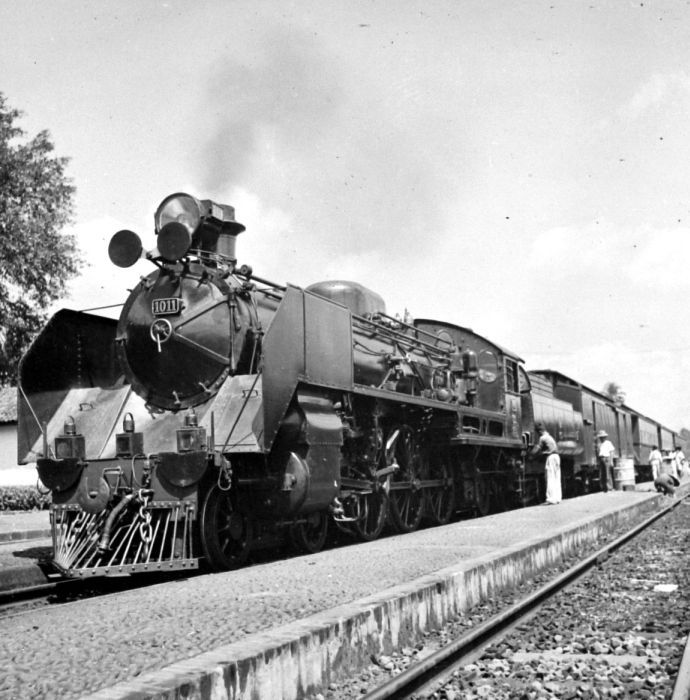 SS 1011 (later PJKA C 5311) and train to Solo (Surakarta) on the railway station in Tasikmalaja, West-Java